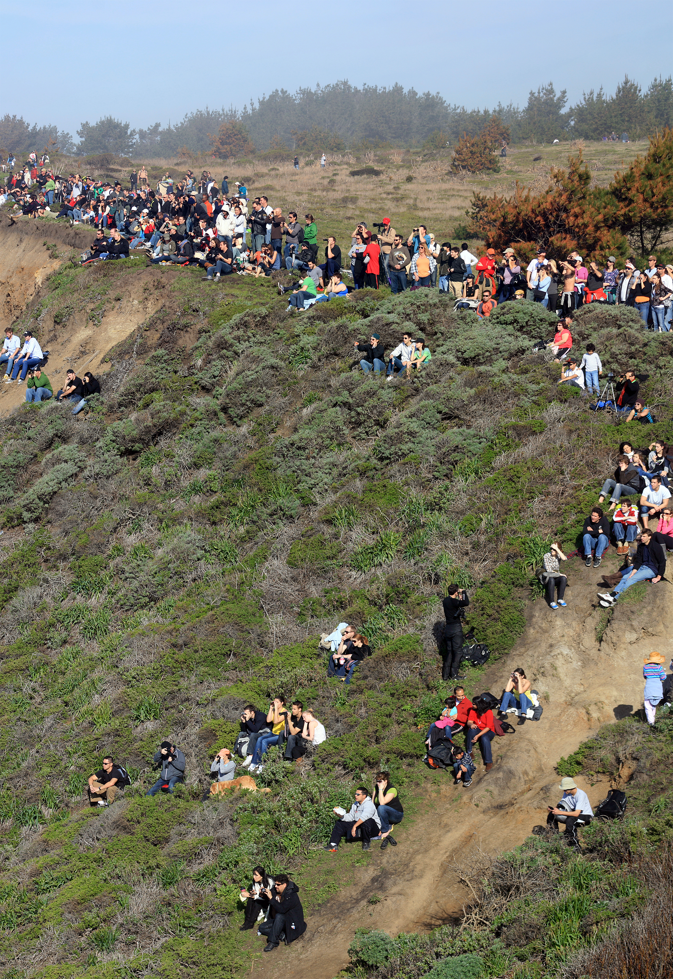 Spectators are watching Mavericks surfing